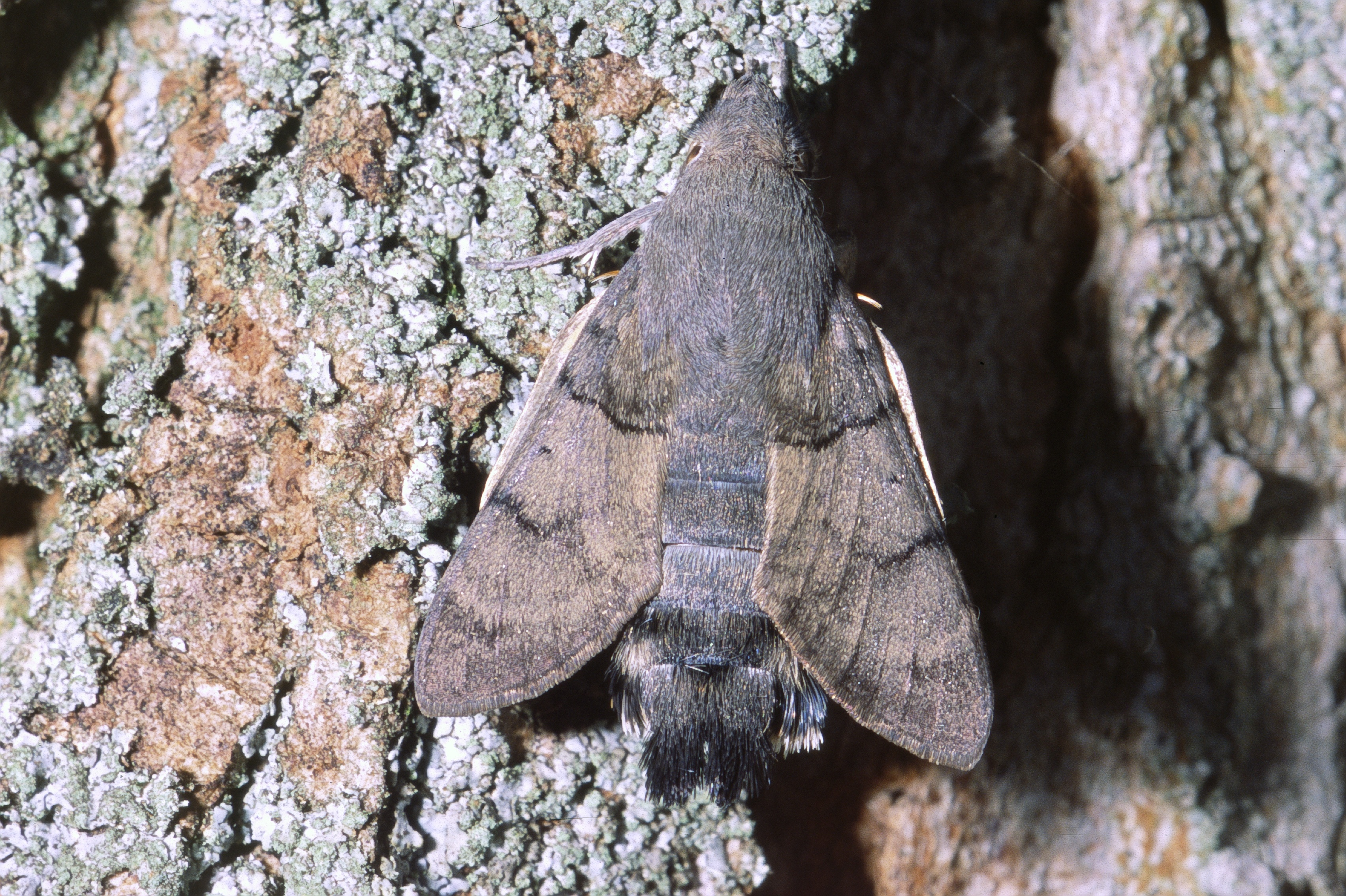 Hummingbird hawk-moth (Macroglossum stellatarum) sometime after the emergence of the chrysalis; photographed in breeding cage, in Calvados, in France.